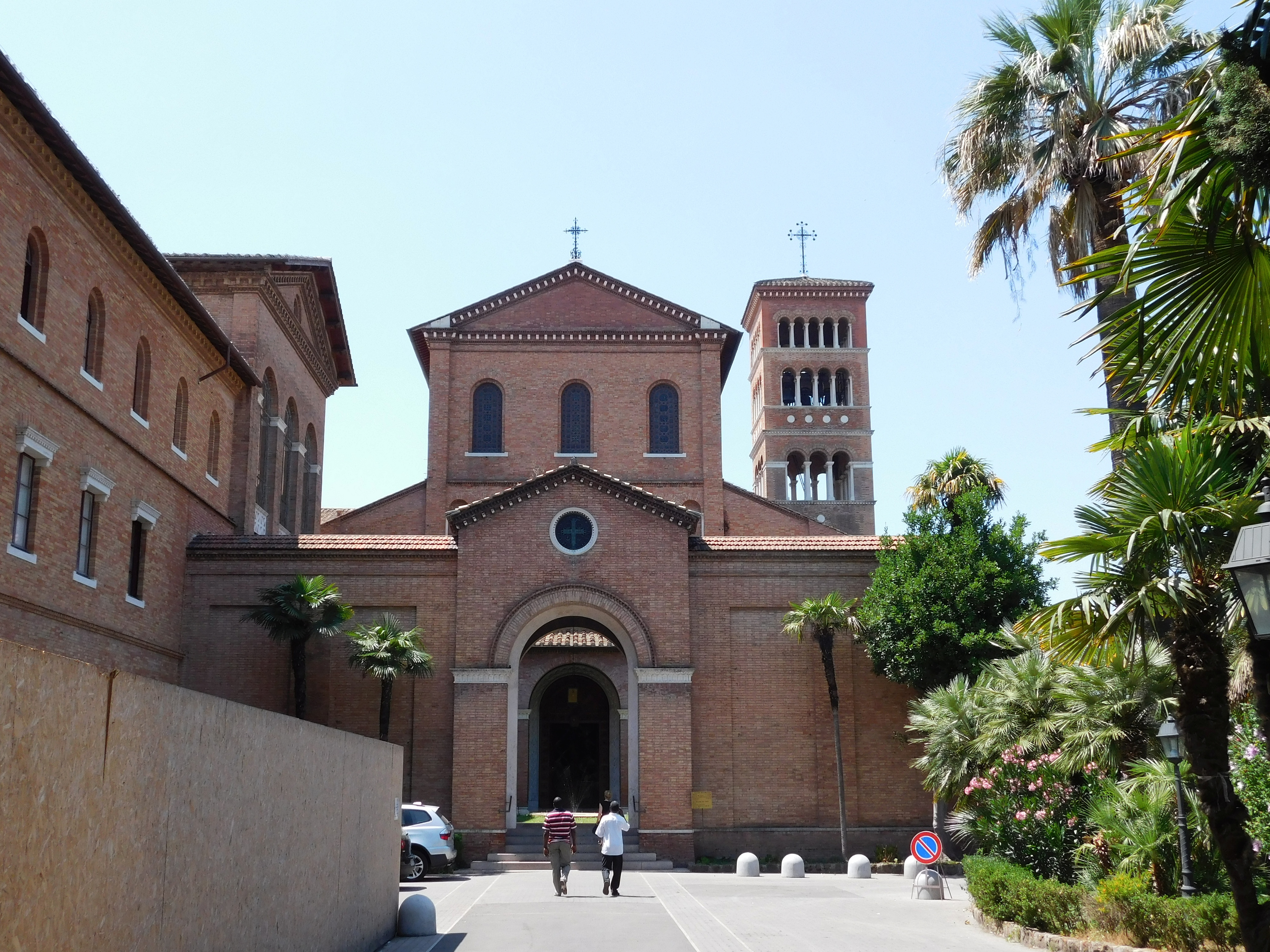 The church of Sant' Anselmo all'Aventino, Rome, Italy